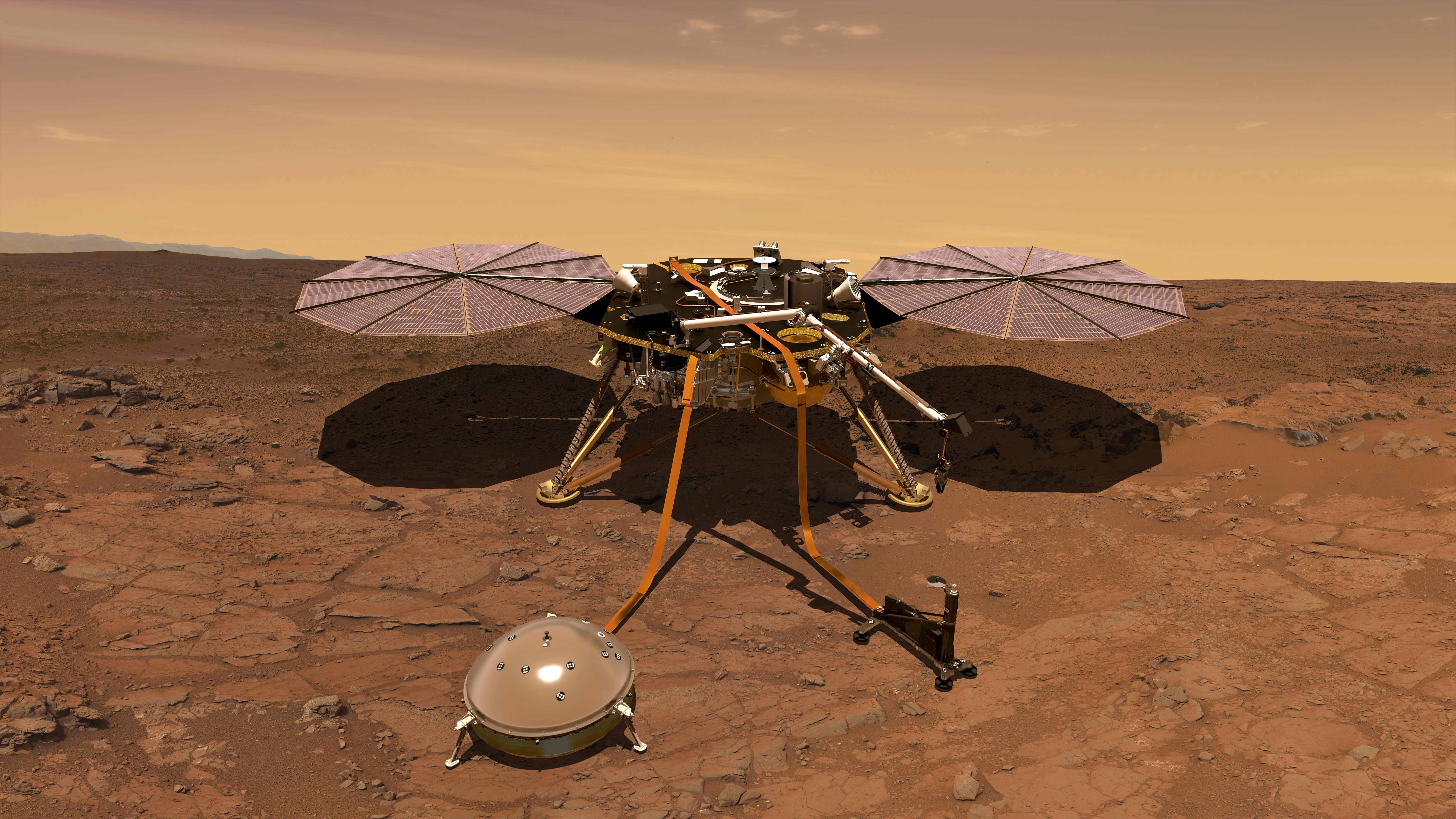 An artist's rendition of the InSight lander operating on the surface of Mars. InSight, short for Interior Exploration using Seismic Investigations, Geodesy and Heat Transport, is a lander designed to give Mars its first thorough check up since it formed 4.5 billion years ago. It is scheduled to launch from Vandenberg Air Force Base on the California coast between May 5 through June 8, 2018, and land on Mars six months later, on Nov. 26, 2018. InSight complements missions orbiting Mars and roving around on the planet's surface. The lander's science instruments look for tectonic activity and meteorite impacts on Mars, study how much heat is still flowing through the planet, and track the planet's wobble as it orbits the sun. This helps answer key questions about how the rocky planets of the solar system formed. So while InSight is a Mars mission, it's also more than a Mars mission. Surface operations begin a minute after landing at Elysium Planitia. The lander's prime mission is one Mars year (approximately two Earth years).